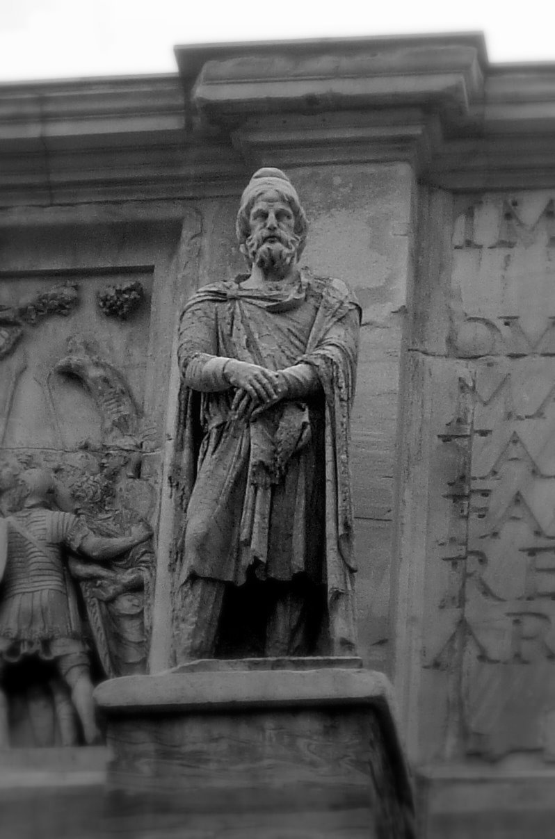 Marble statue of a Dacian warrior surmounting the Arch of Constantine in Rome.